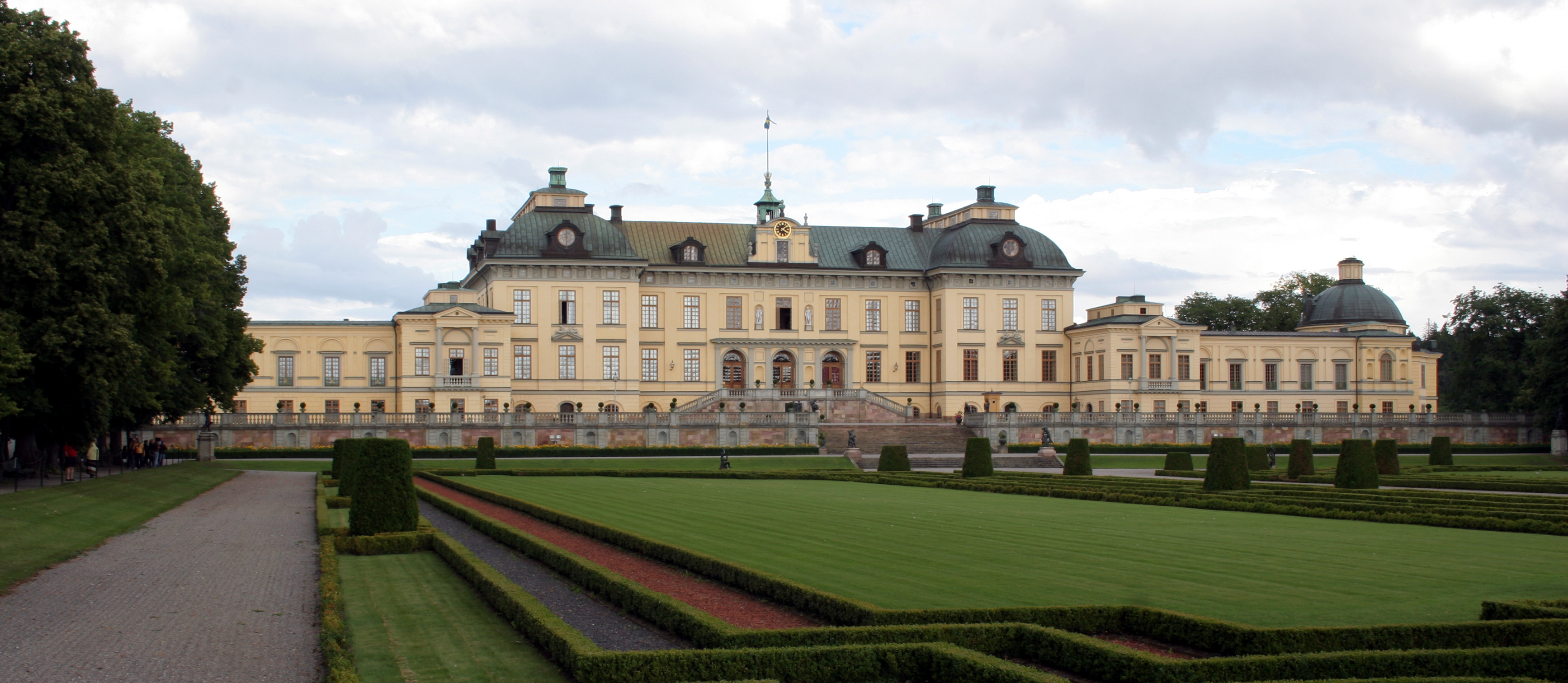 Drottningholms slott, Stockholm, Sweden. The swedish King's residence.